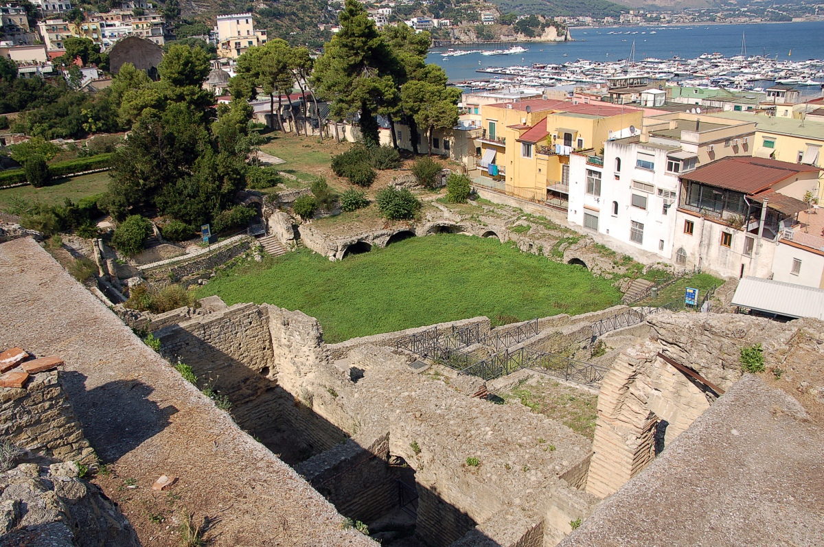 Compex of the roman thermapbath